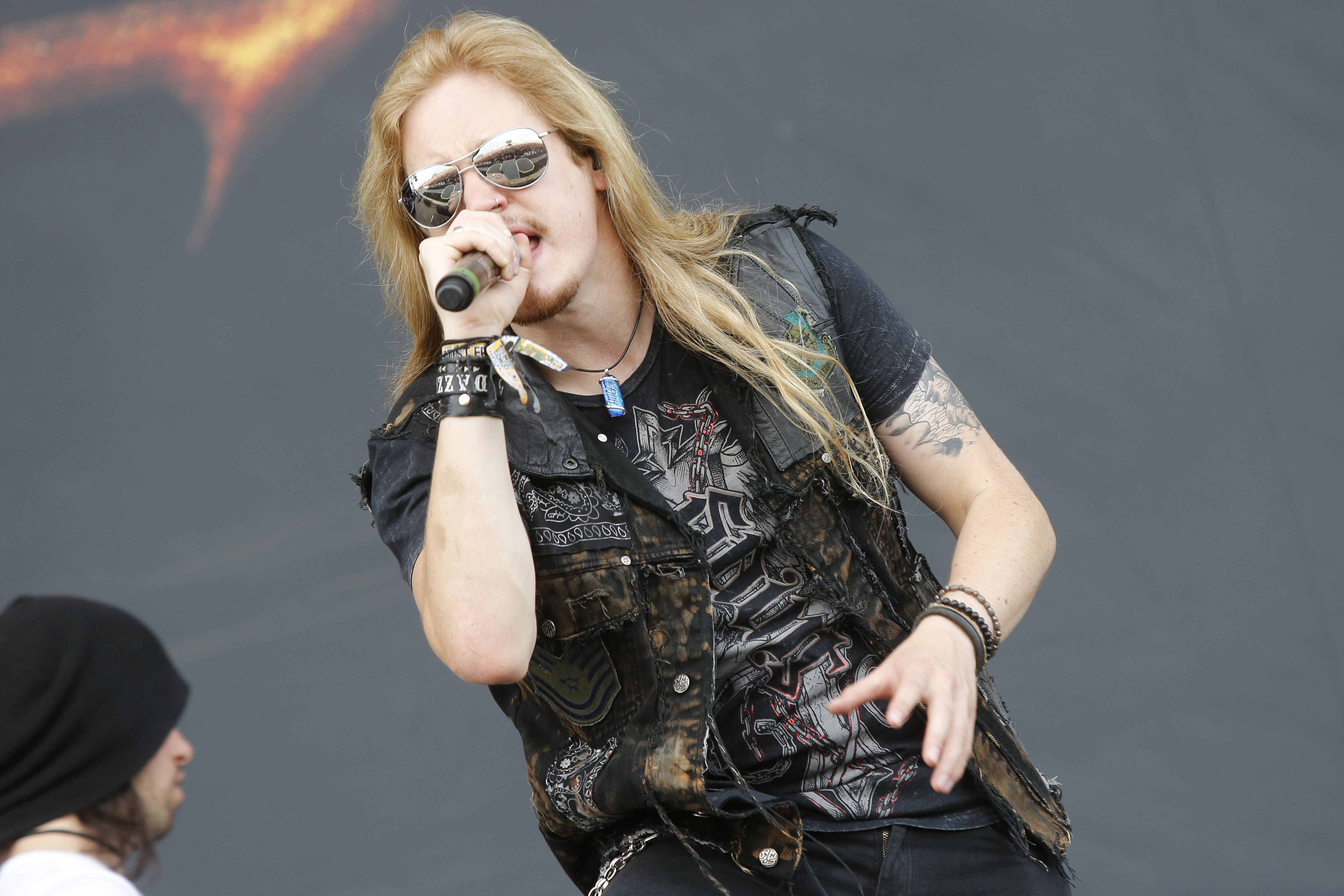 Marc Hudson, singer of DragonForce at Nova Rock-Festival 2013.